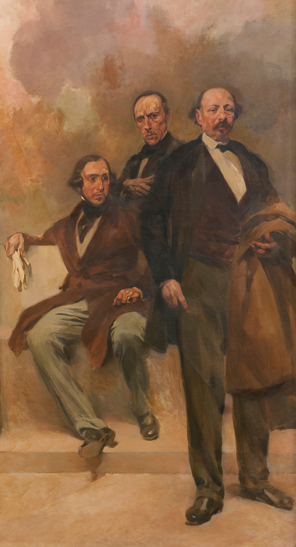 Passos Manuel, João Baptista de Almeida Garrett (1st Viscount Almeida Garrett), Alexandre Herculano, e José Estevão de Magalhães, in a 1926 painting by Columbano Bordalo Pinheiro for the Palace of Saint Benedict (Portuguese Parliament), Lisbon, Portugal.